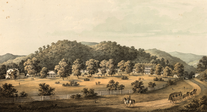 Print of the Blue Sulphur Springs Resort, in Blue Sulphur Springs, West Virginia.